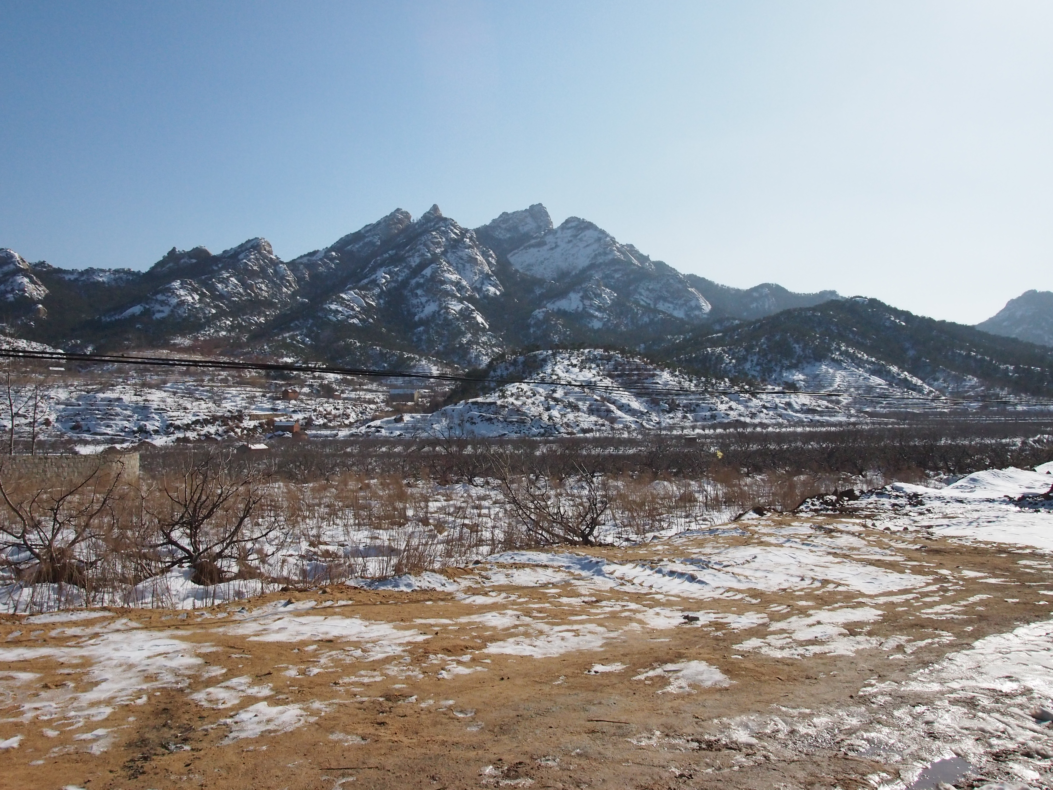 The Kunyu Mountains in China (winter)